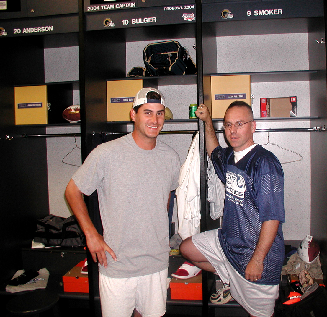 St. Louis Rams quarterback Marc Bulger shows off the locker room. He and other NFL greats were involved in Kurt Warner's First Things First flag football games, along with Reservists from the 932nd Airlift Wing VIRIN: 041007-F-9392S-8035